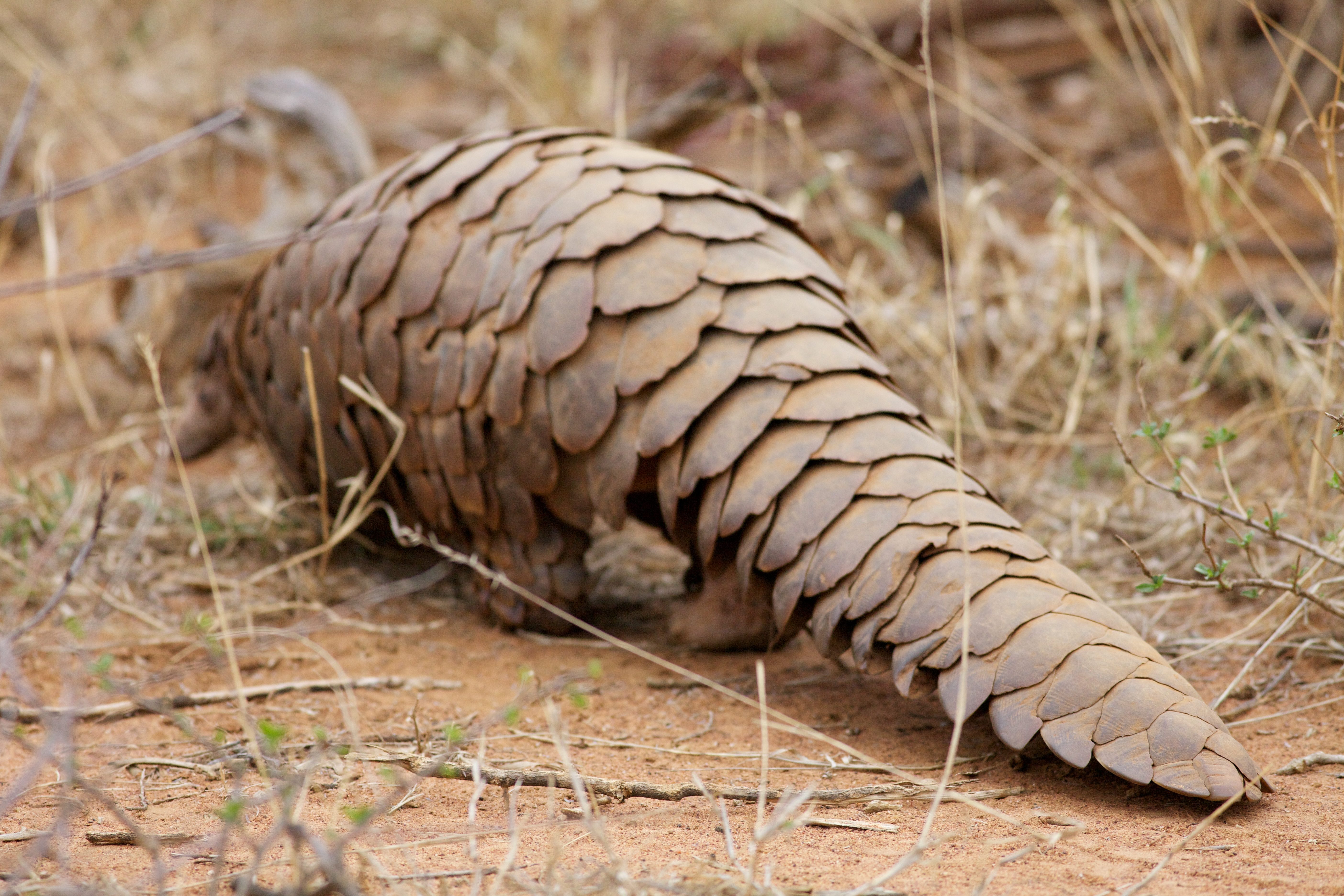 Ground Pangolin at Madikwe Game Reserve in South Africa.